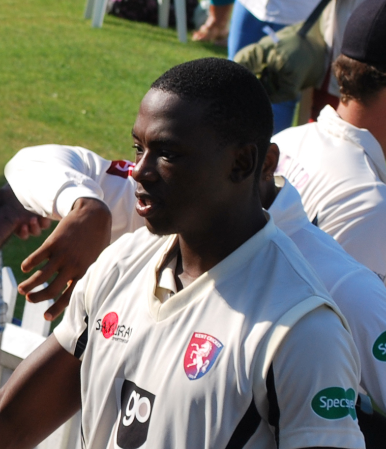 Kagiso Rabada whilst with Kent at the Nevill Ground, Tunbridge Wells in July 2016